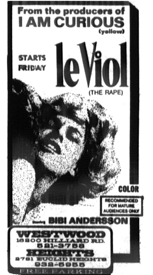 Ad for Le Viol (